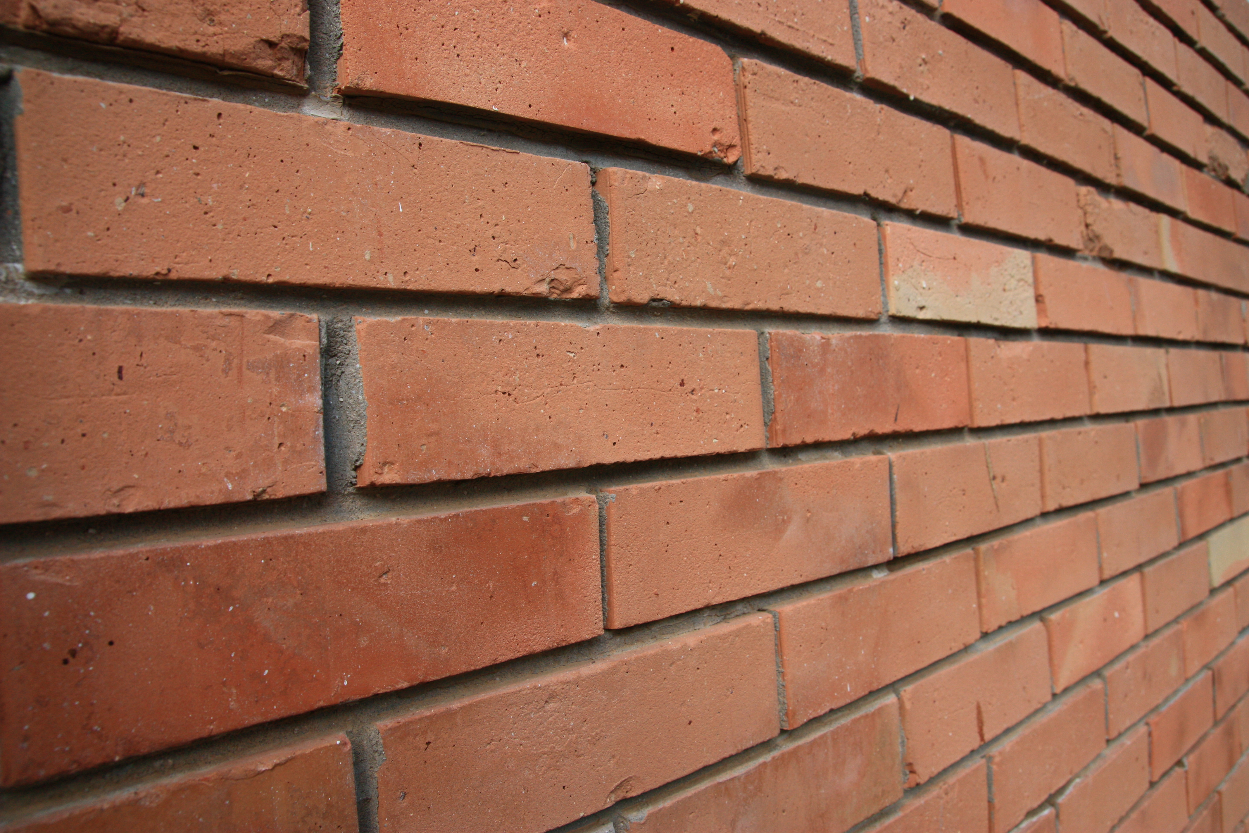 Wall in Israel